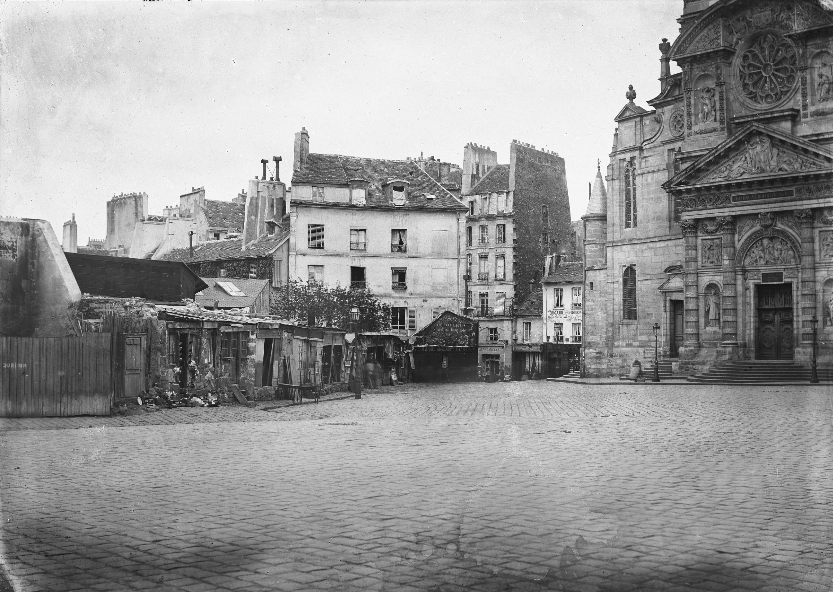 Historical photography of the place Sainte-Geneviève in Paris in front of the Église Saint-Étienne-du-Mont by Charles Marville.